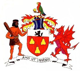 Achievement of arms granted to Sir John Perrot, 1547.